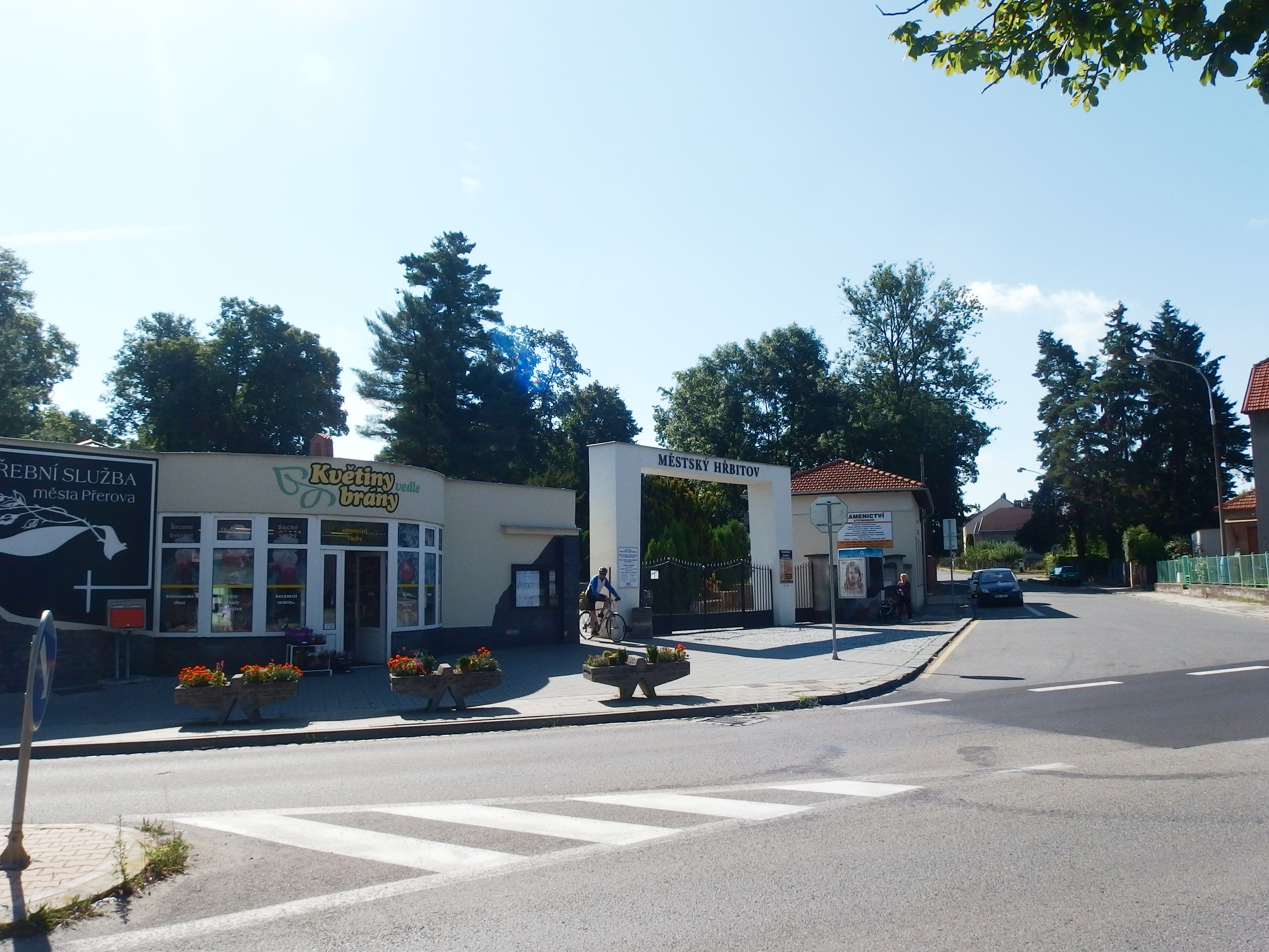 Přerov, Czech Republic.